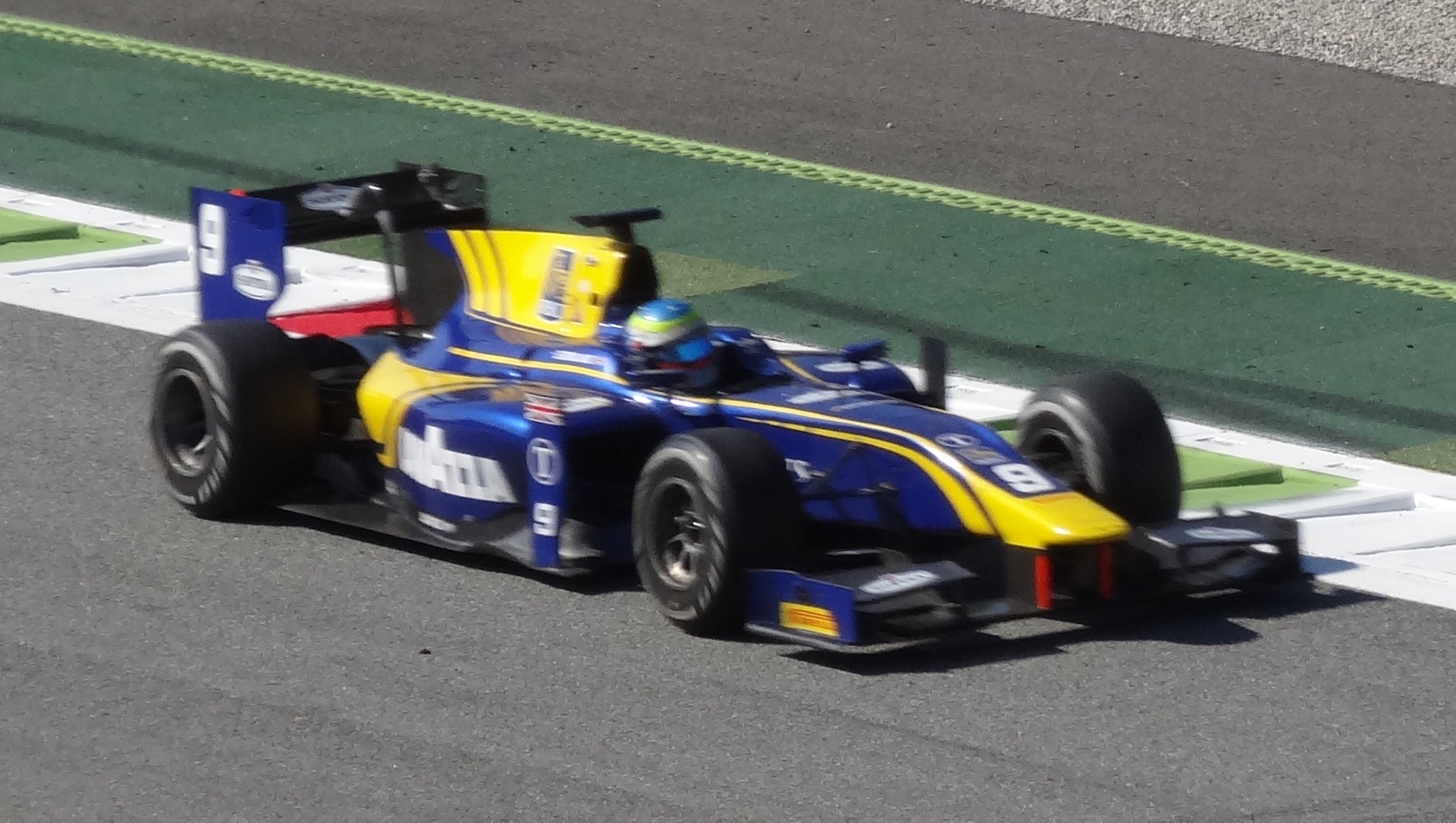 Oliver Rowland Monza F2 2017